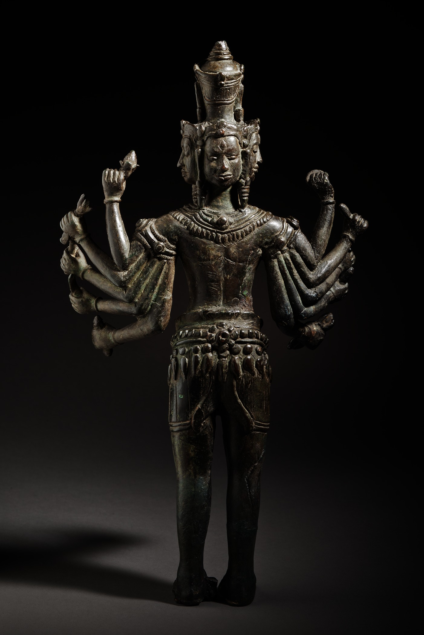 Cambodia, 12th century Sculpture Copper alloy Gift of Michael Phillips (M.79.189.1) South and Southeast Asian Art